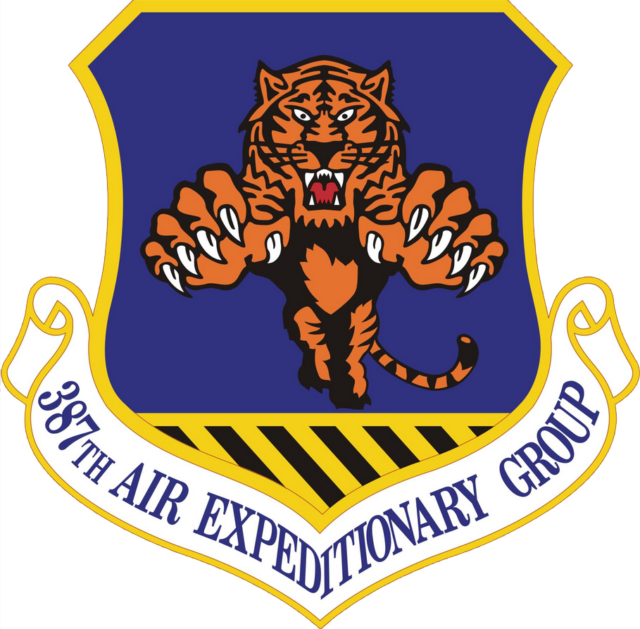 387th Air Expeditionary Group - Emblem Blazon: Per fess abased Azure and Or, in base seven bends diminished Sable, in chief a tiger affronté attacking Proper, all within a diminished bordure Or. Symbolism: Ultramarine blue and Air Force yellow are the Air Force colors. Blue alludes to the sky, the primary theater of Air Force operations. Yellow refers to the sun and the excellence required of Air Force personnel. The tiger is one of the largest and fiercest hunters on earth and symbolizes invincibility, might, purity and beauty. The black and yellow stripes on which the tiger stands are a tribute to the 387th Bombardment Group’s “Tiger Tails” tail flash from 1942.[1]